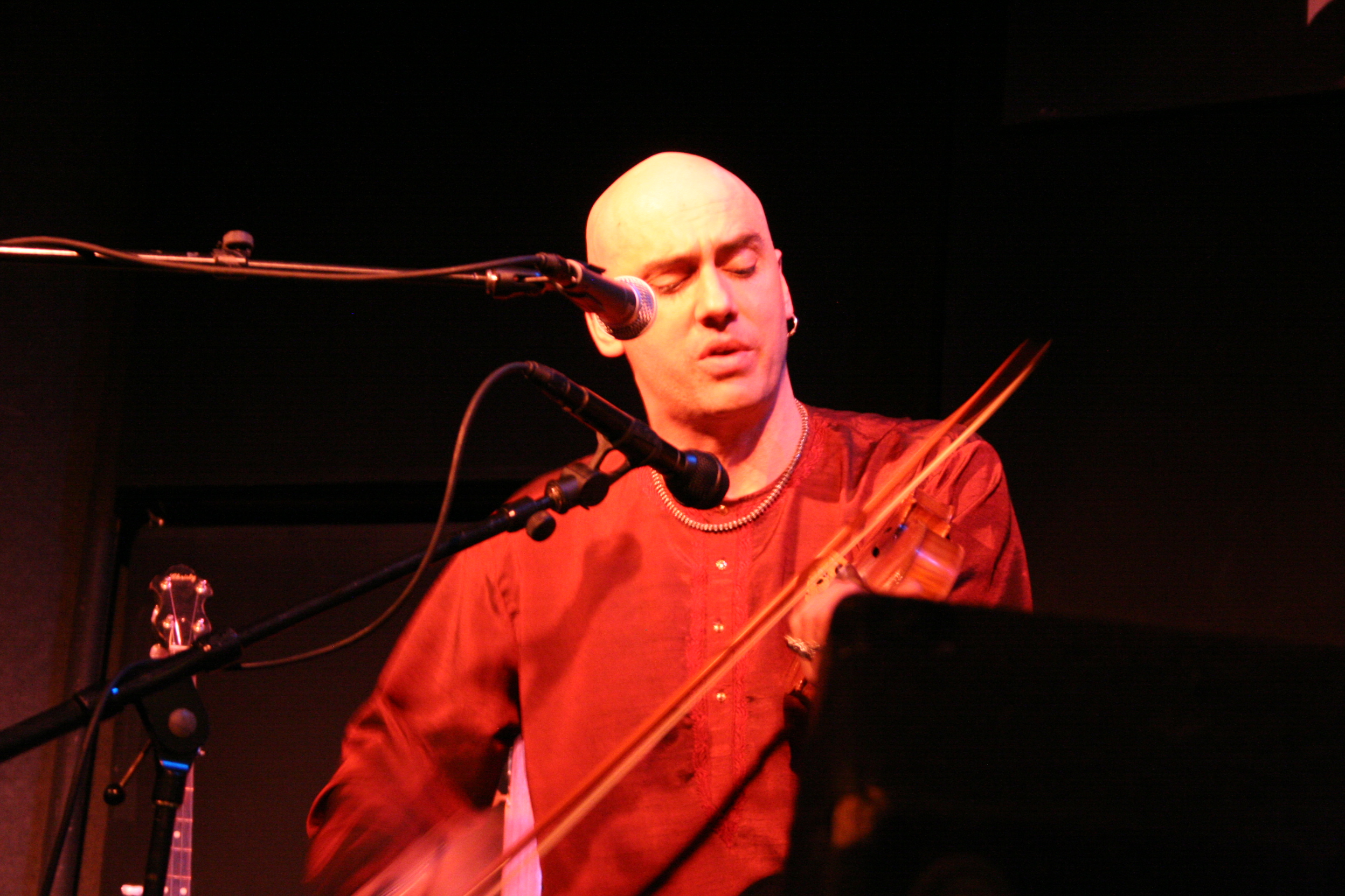 Tim Eriksen 2.29.08 @ the Iron Horse, Northampton, MA. Great show! Peter sat in on drums for almost all of it & Eliza sang on at least one song. Lots of our friends and singerfolk came. I hung out and ate yummy food w/ Dave & Morgan, listened to great music & managed to get some good pics.